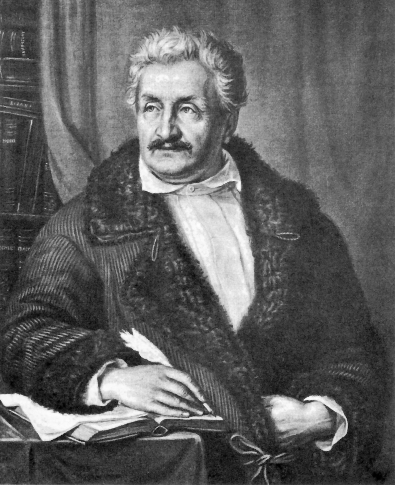 Portrait of Jakob Philipp Fallmerayer (Staatsarchiv Nürnberg).